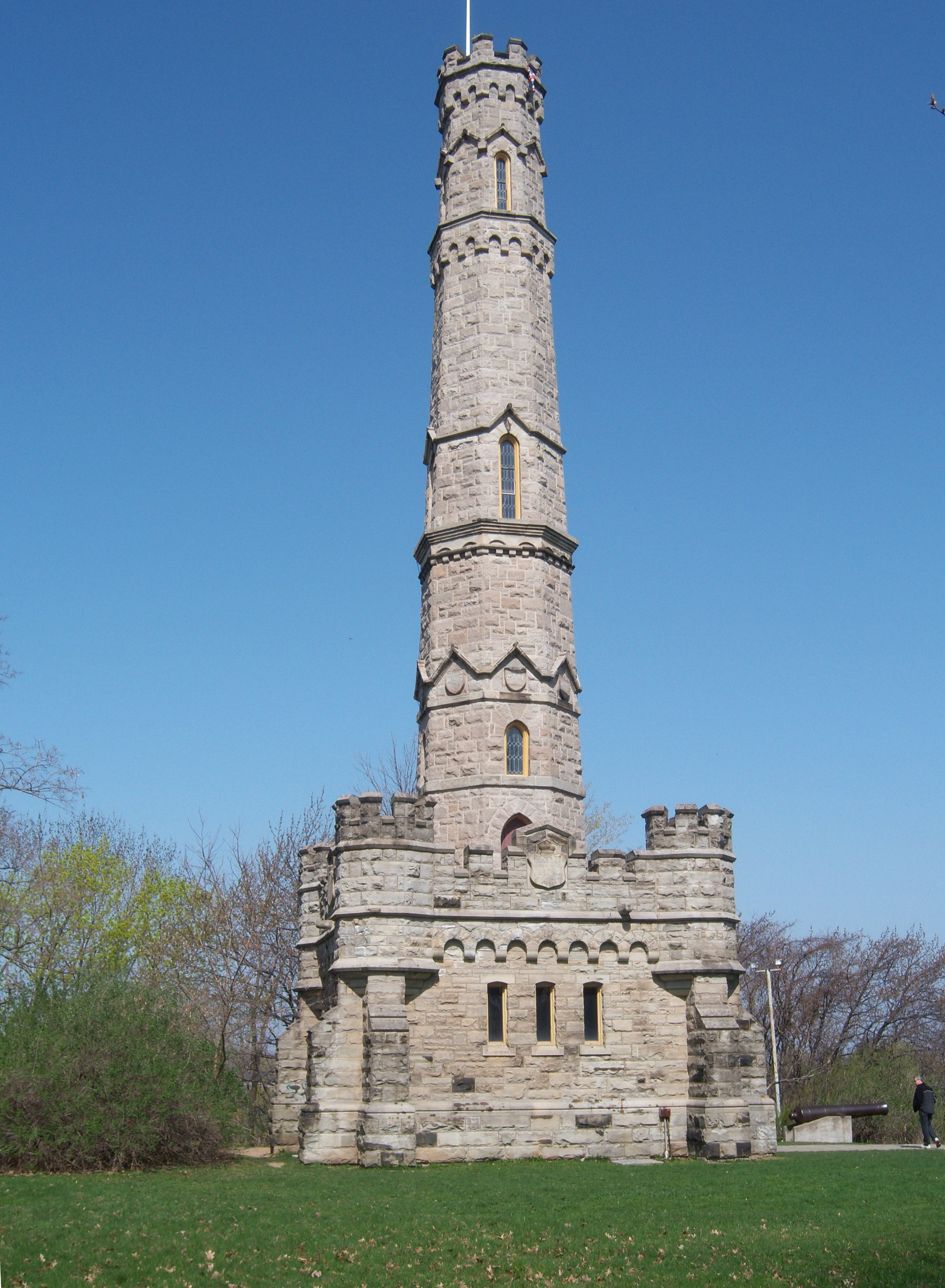 The monument to the battle of stony creek, located in hamilton, ontario